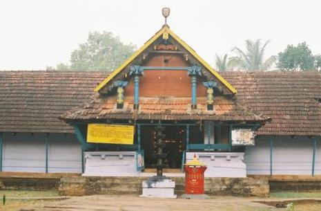 Kodikkunnu Bhagavathy Temple, Padinjare Nada.